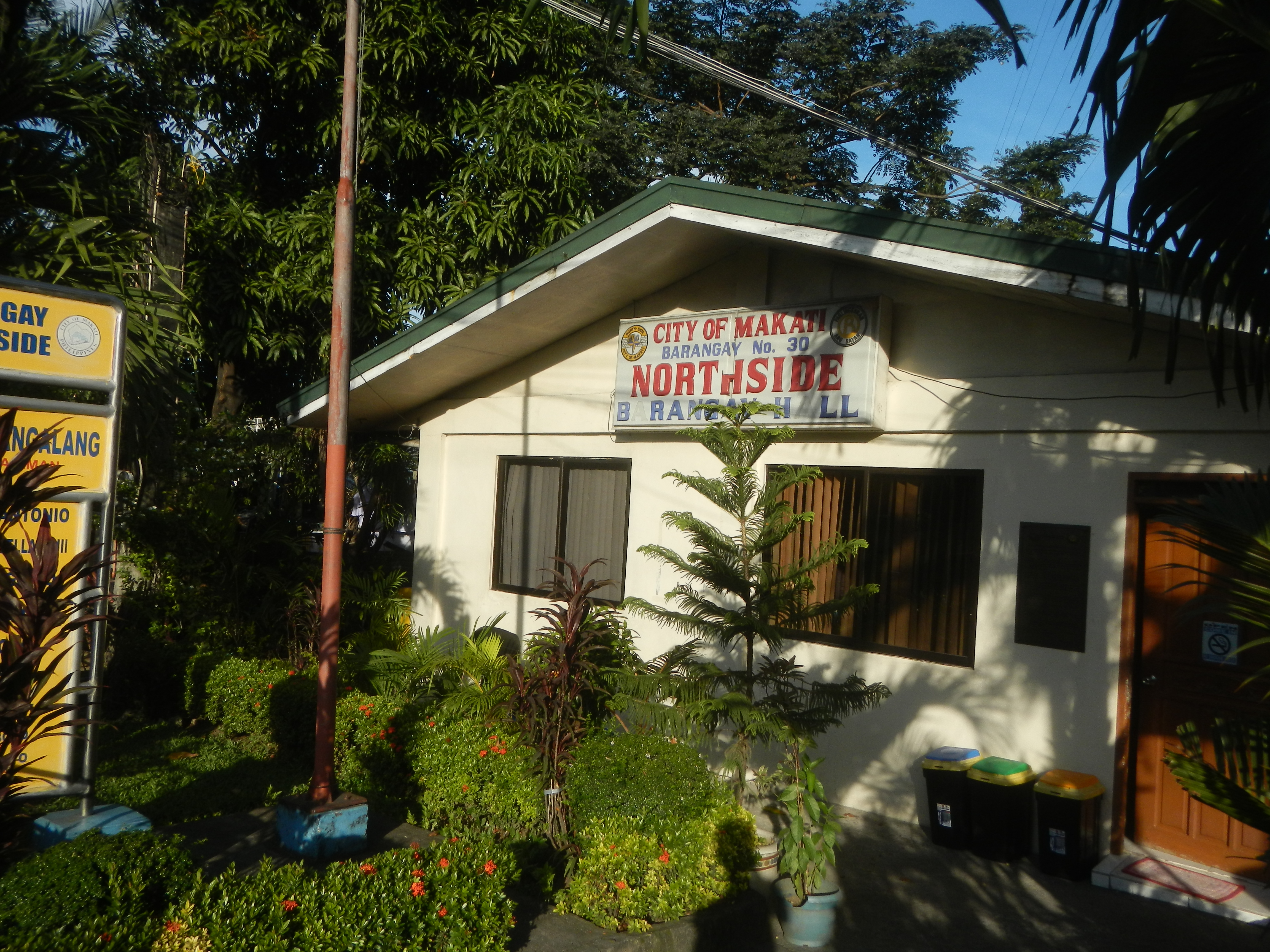 Central Enlistedmen's Barrio - Barangay 25 or Central Enlisted Men's Barrio along and from Kalayaan Avenue (Makati City) Kalayaan Avenue 14°38'28"N 121°3'16"E Kalayaan Avenue Lawton Avenue 14°32'10"N 121°2'24"E Avenue 14°33'48"N 121°3'15"E Phase II-A BGC Viaduct J. P. Rizal Extension, District II, Makati City 14°33'46"N 121°3'34"E J. P. Rizal Street 14°34'18"N 121°0'57"E District II, List of barangays of Metro Manila, Legislative districts of Makati, Barangays Cembo 14°33'54"N 121°3'2"E West Rembo 14°33'40"N 121°3'36"E East Rembo 14°33'11"N 121°3'42"E Barangay Northside, Makati City - Barangay 30 14°33'48"N 121°3'15"E Makati City (beside and bounded, upon the Pasig City Welcome - Boundary Buting Monument in Kalayaan Avenue, East Rembo, Makati City in List of barangays of Metro Manila, Barangay Buting 14°33'19"N 121°4'8"E Pasig City (Note: Judge Florentino Floro, the owner, to repeat, Donor Florentino Floro of all these photos hereby donate gratuitously, freely and unconditionally all these photos to and for Wikimedia Commons, exclusively, for public use of the public domain, and again without any condition whatsoever).